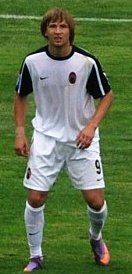 Oleksandr Kasyan